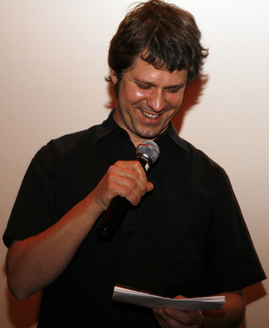 Austrian film director Marco Antoniazzi at VIS Vienna Independent Shorts 2009 in Vienna.